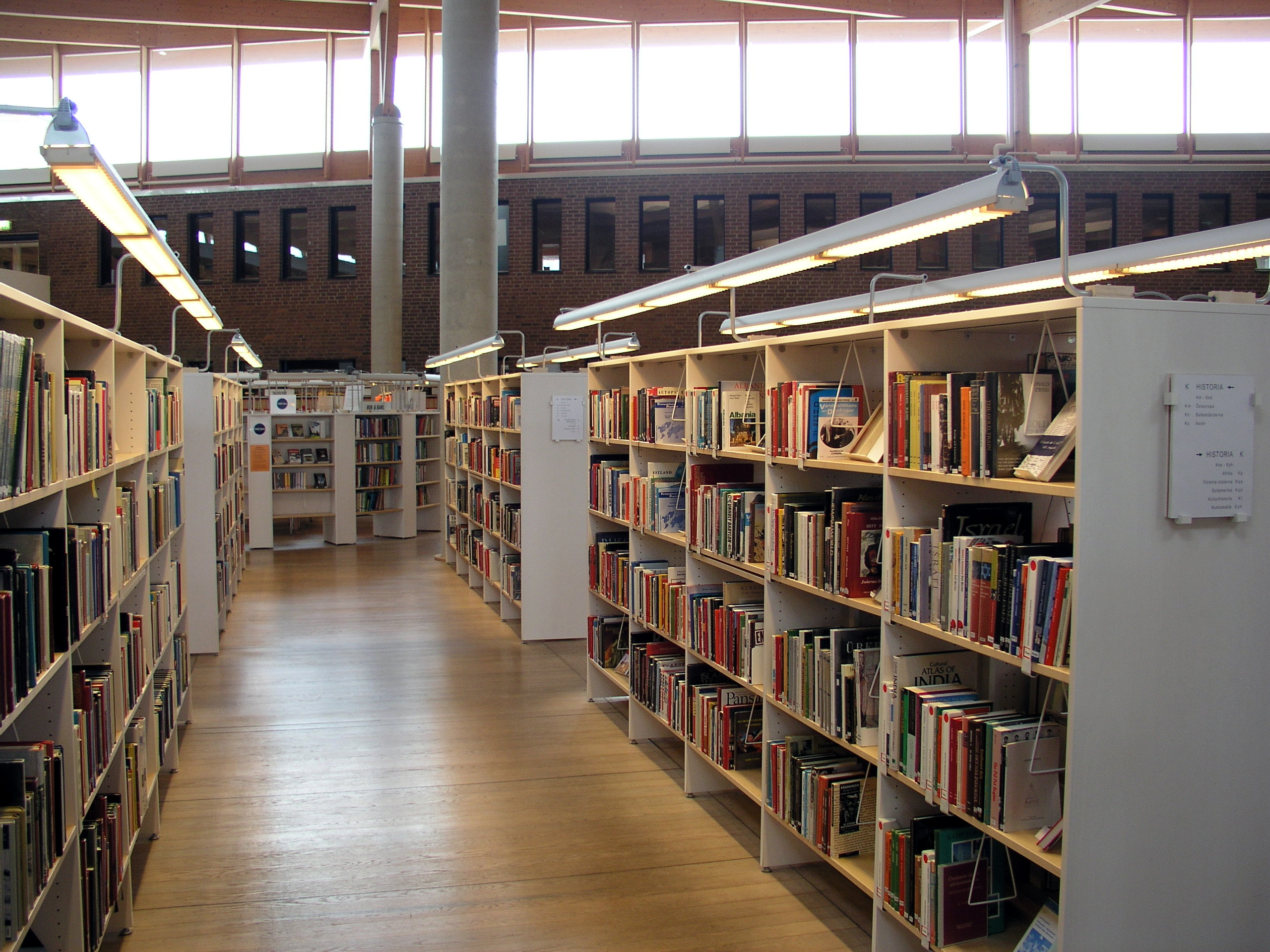 Library in Linköping, Sweden. Interior. Stifts- och landsbiblioteket is the new building that was built following the 20 September 1996 fire. The new building was inaugerated in February 2000.